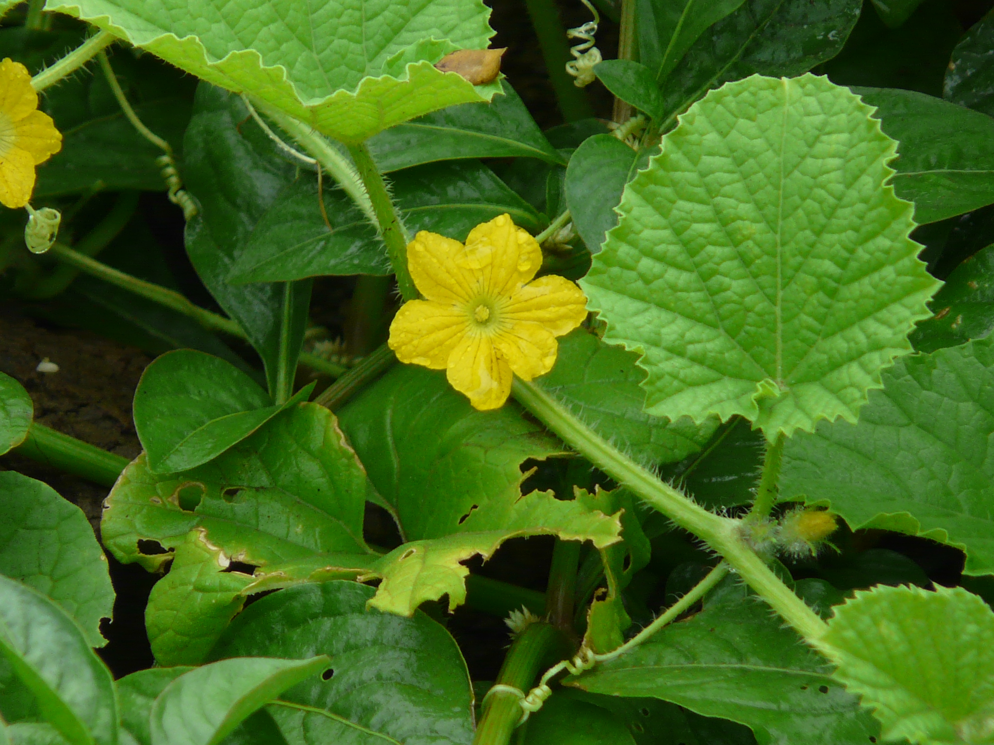 Cucurbitaceae (pumpkin, or gourd family) » Cucumis melo ssp. agrestis KOO-koo-mis -- from the Greek kykyon, meaning cucumber MEL-oh -- meaning, an apple-shaped melon ag-RES-tiss -- of or belonging to fields commonly known as: senat seed, small gourd, wild musk melon • Gujarati: કચરી kachari • Hindi: कचरी kachari, कचरिया kachariya • Konkani: चिबडिण chibdin • Marathi: शिंडे shinde • Nepalese: gurmi • Rajasthani: कचरी kachari Native to: Asia, tropical Africa References: NPGS / GRIN • eFlora • Common Indian Wild Flowers by Isaac Kehimkar